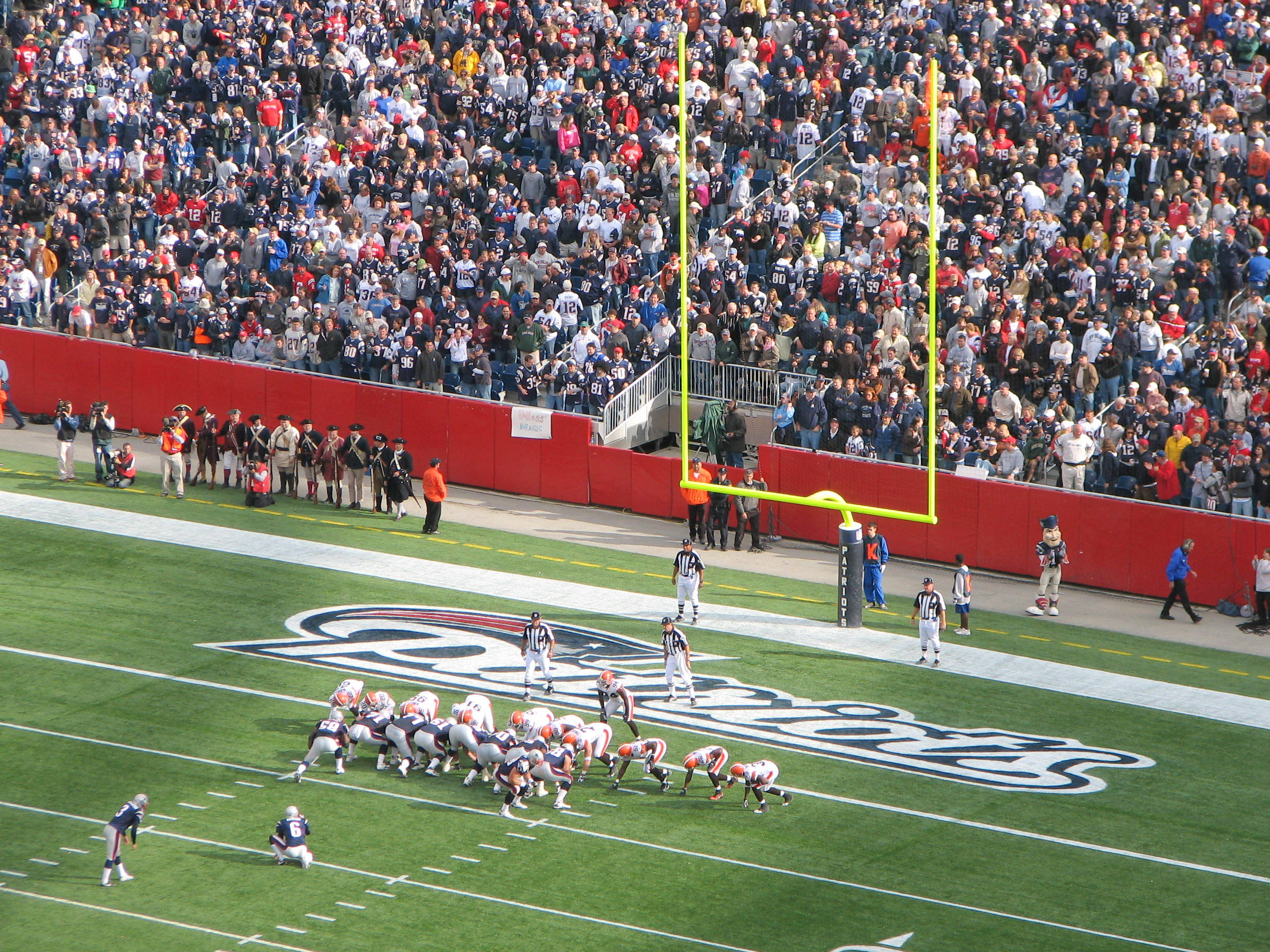 New England Patriots vs Cleveland Browns at Gillette Stadium, Foxboro, Massachusetts, USA